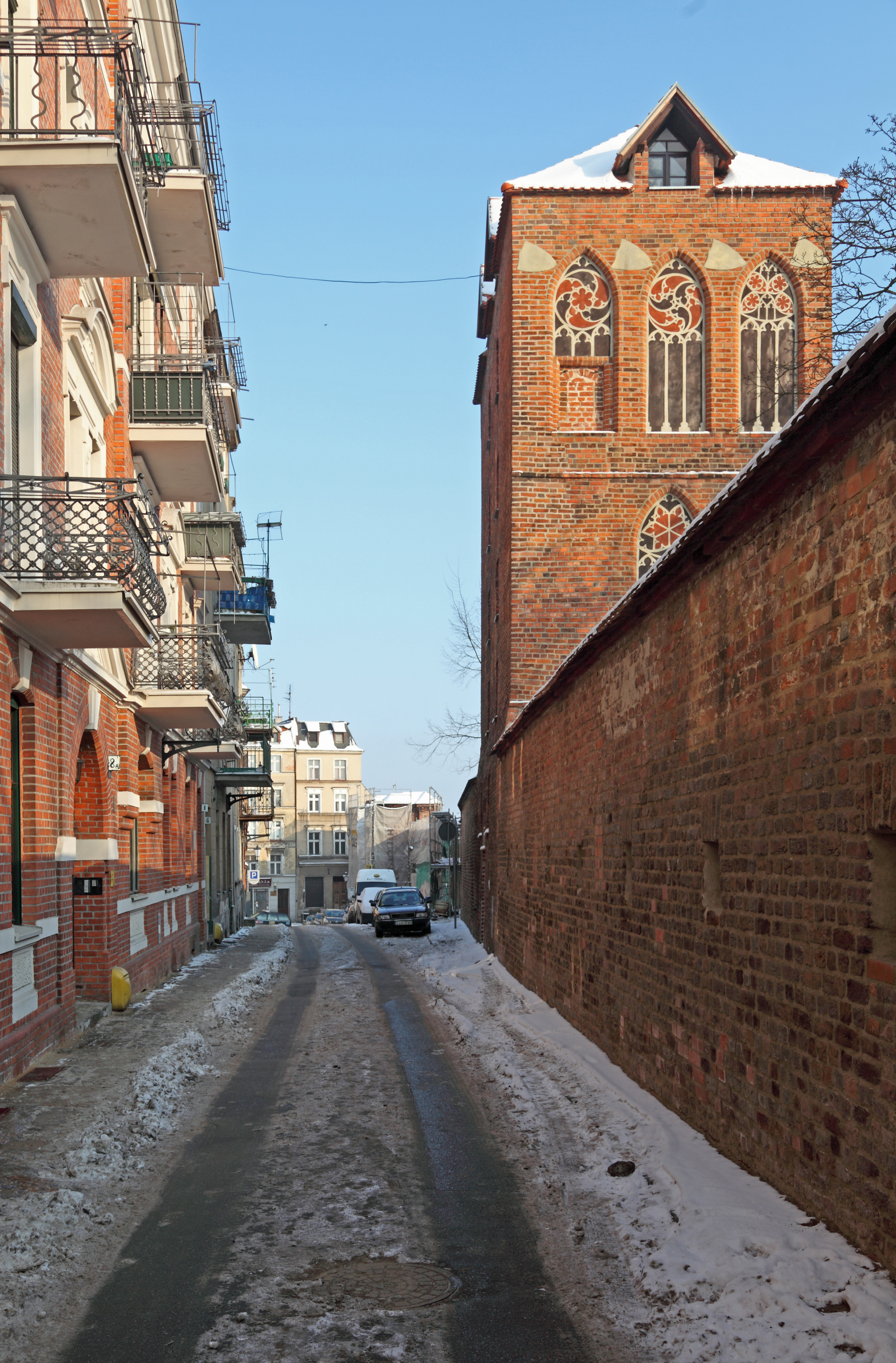 Toruń, Bankowa Street, city walls and Gołębnik watchtower.